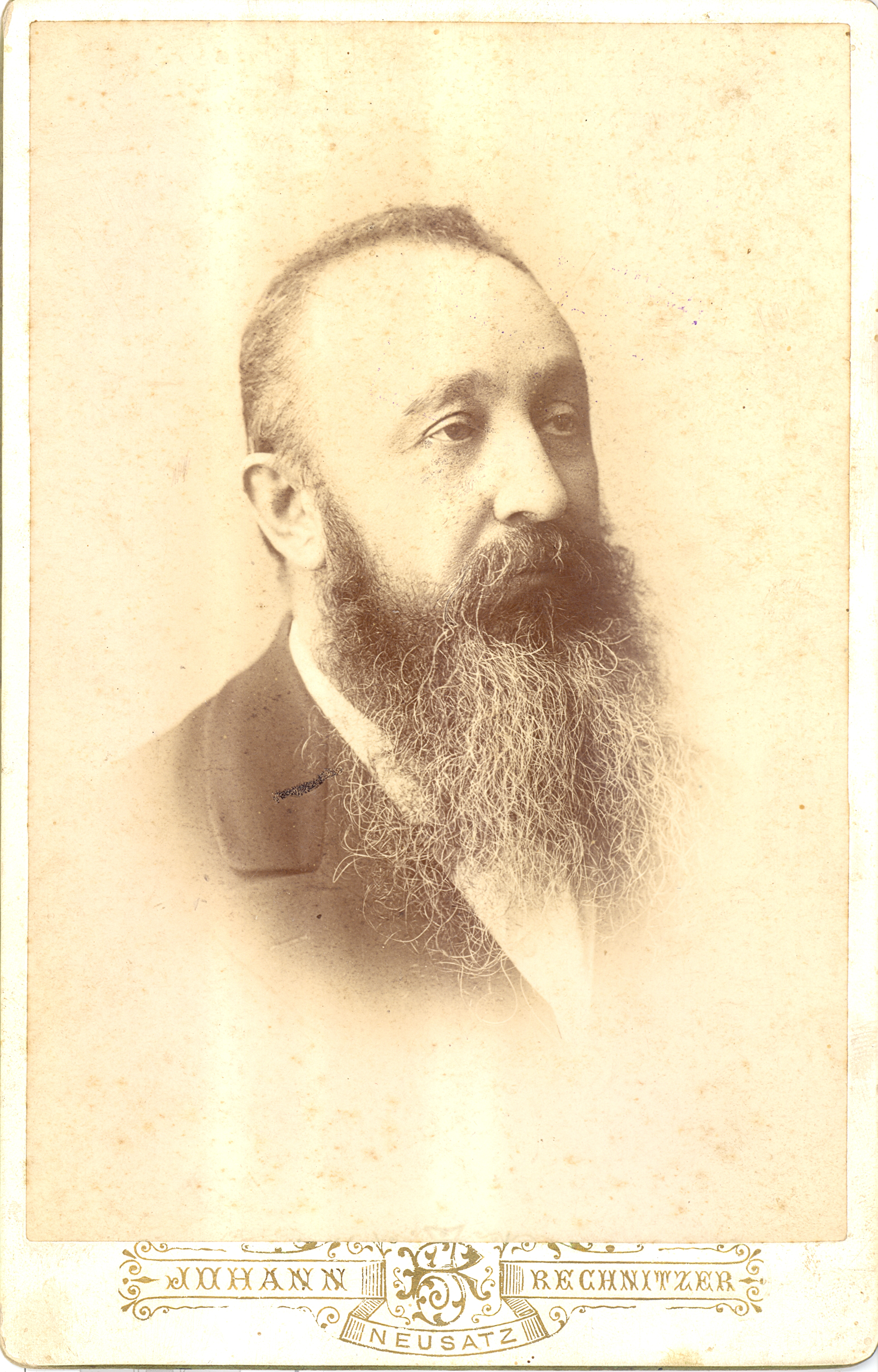 Photograph of Vasa Pušibrk (1838-1917), professor and principal of the Serbian Orthodox Gymnasium in Novi Sad, inventory number 774. Srpski (latinica): Fotografija Vase Pušibrka (1838-1917), profesora i direktora Srpske pravoslavne velike gimnazije u Novom Sadu, inventarski broj 774.